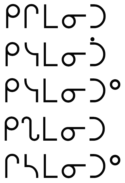 Gitche Manitou in Cree syllabic: Kicemanito (Cree New Testament 1876) Kisemanitô (Cree Bible 1862) Kisemanitow (Cree New Testament 1904) Kishemanito (Ojibwe New Testament 1988) Chisamanitu (Naskapi New Testament 2007)